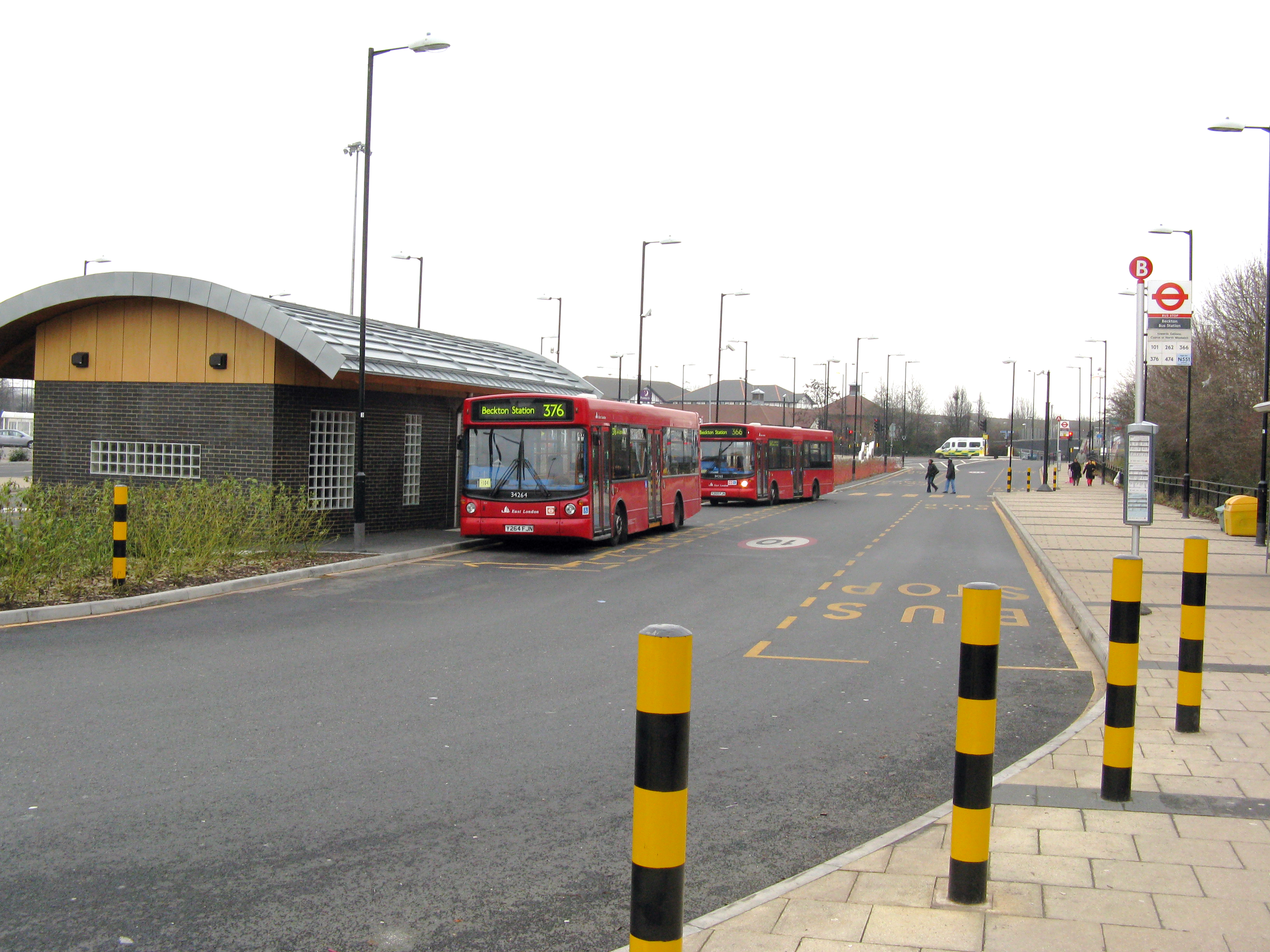 Beckton bus station, near to Beckton, Newham, Great Britain. It has to be said that the new Beckton bus station is less than overwhelming. It consists of a dedicated U-shaped roadway, on each arm of which is a bus stop with shelter. (The building in the centre being solely for Staff use). Perhaps it was considered that passengers could make do with the facilities provided by ASDA in their store, two minutes walk away, where there are toilets and a cafe.